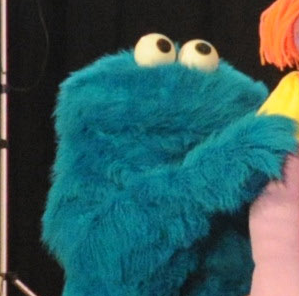 A cropped image of Cookie Monster.